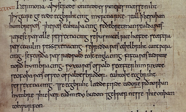 Snipped from an image on this British Library page; described there as Anglo-Saxon Chronicle (C-text): Entries for the years 824 to 833. Abingdon, mid eleventh century.British Library Cotton MS Tiberius B.i, f.128. The snippet uploaded is the entry for 827 (829 in today's calendar). The 1823 translation by Rev. Ingram is as follows: A.D. 829. This year was the moon eclipsed, on mid-winter's mass-night; and King Egbert, in the course of the same year, conquered the Mercian kingdom, and all that is south of the Humber, being the eighth king who was sovereign of all the British dominions. Ella, king of the South-Saxons, was the first who possessed so large a territory; the second was Ceawlin, king of the West-Saxons: the third was Ethelbert, King of Kent; the fourth was Redwald, king of the East-Angles; the fifth was Edwin, king of the Northumbrians; the sixth was Oswald, who succeeded him; the seventh was Oswy, the brother of Oswald; the eighth was Egbert, king of the West-Saxons. This same Egbert led an army against the Northumbrians as far as Dore, where they met him, and offered terms of obedience and subjection, on the acceptance of which they returned home.